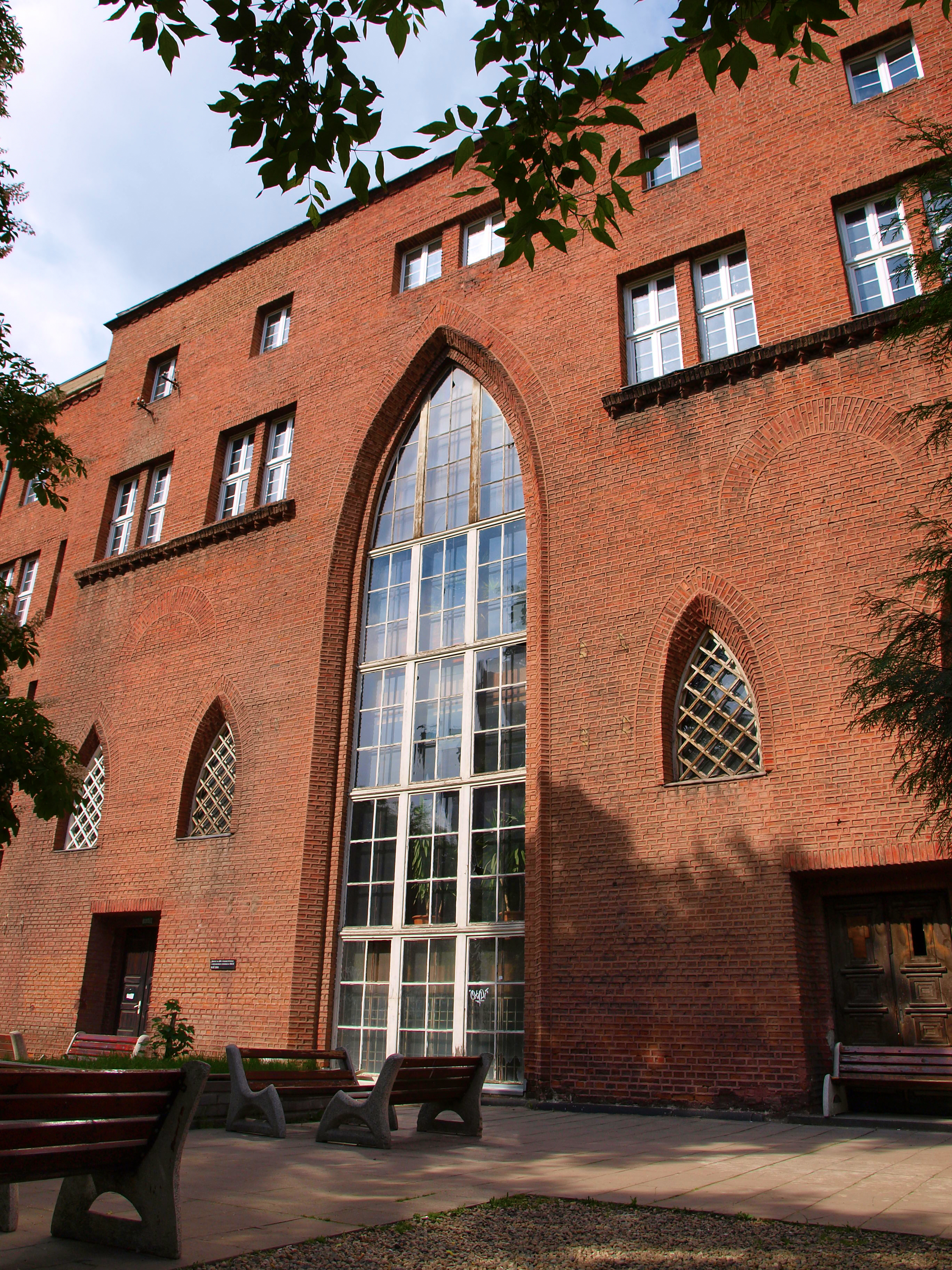 Sofia University Faculty of Biology, Sofia, Bulgaria